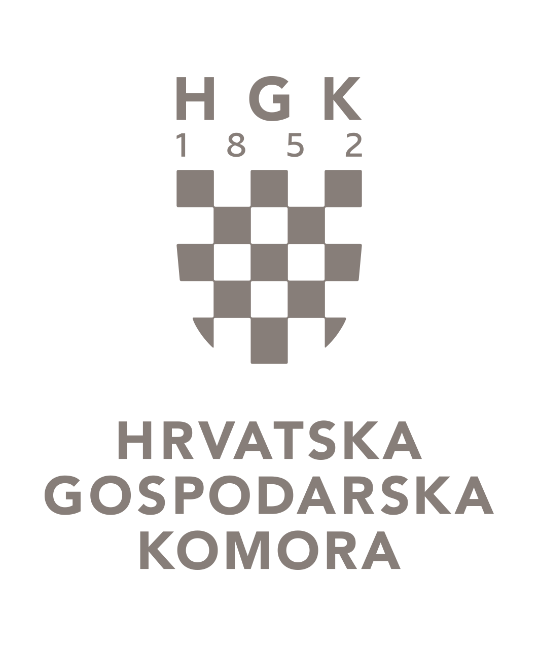 logotip